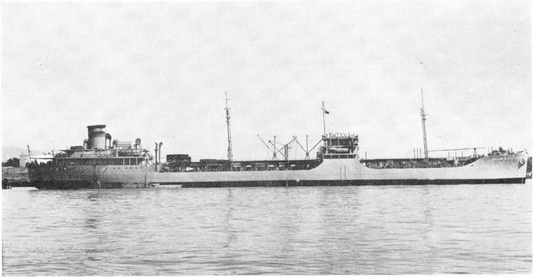 Mission Buenaventura (T-AO-111), US Navy photo from MSTS Mariner Magazine. img URL